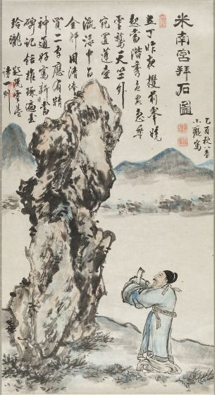 The Chinese Scholar Mi Fu (1051-1107) Paying Homage to a Fantastic Rock -- Korean painting with calligraphy, 1885; created by Hô Ryôn (1809 - 1893)